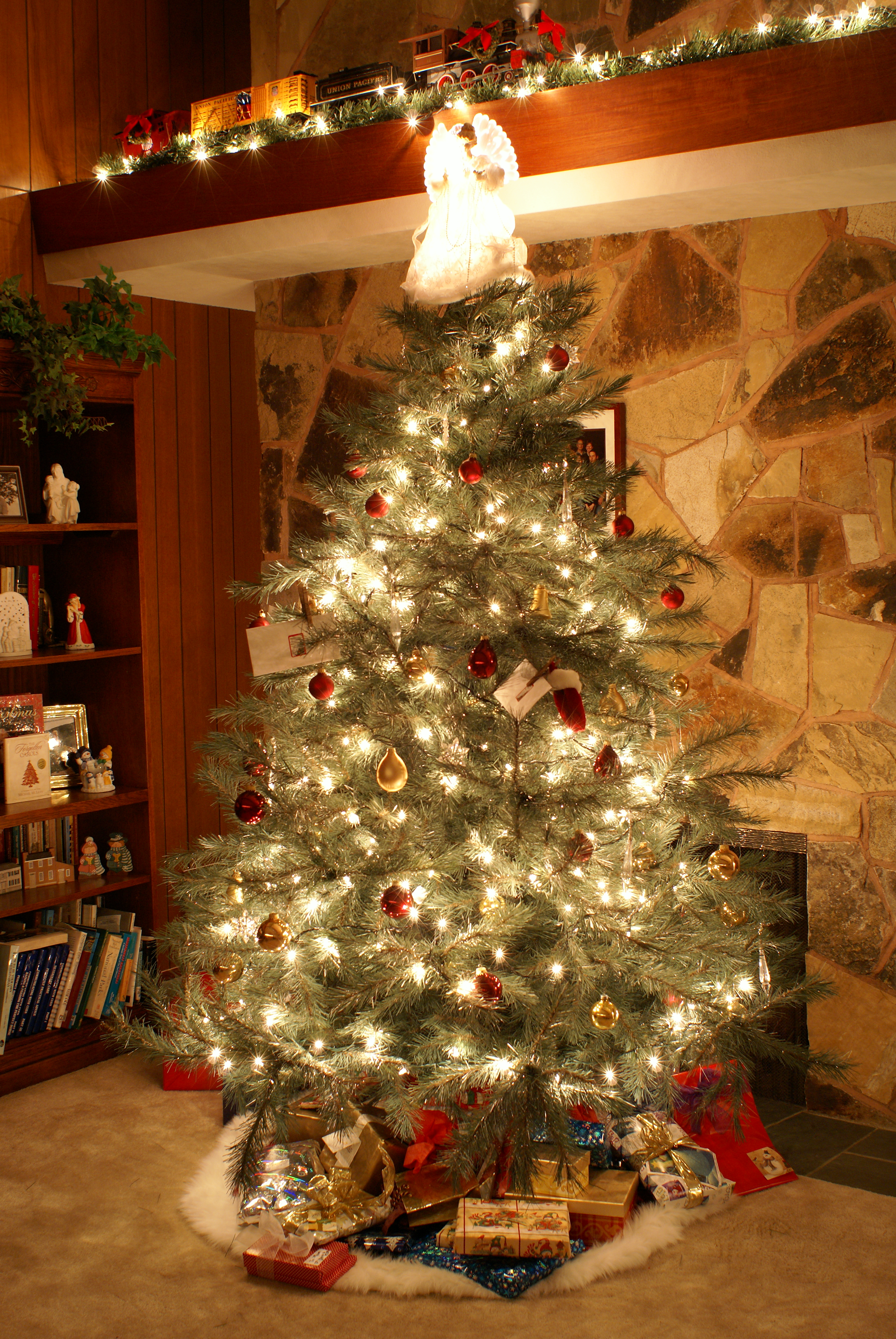 A Christmas tree in the United States.